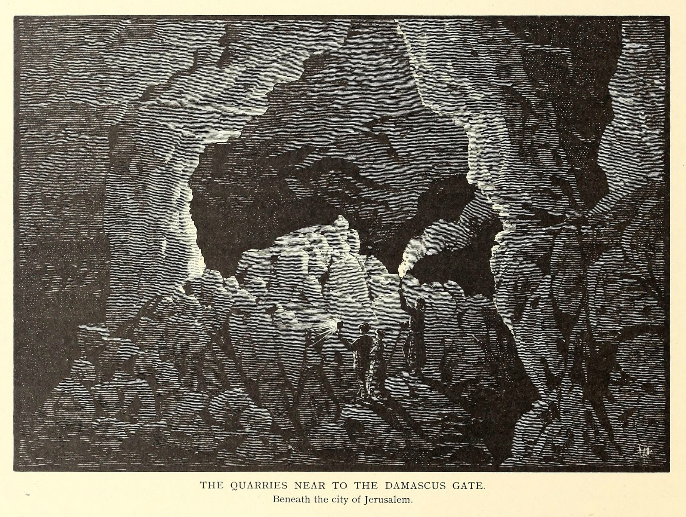 Caption: The Quarries near to the Damascus Gate Beneath the city of Jerusalem. Zedekiah's Cave.